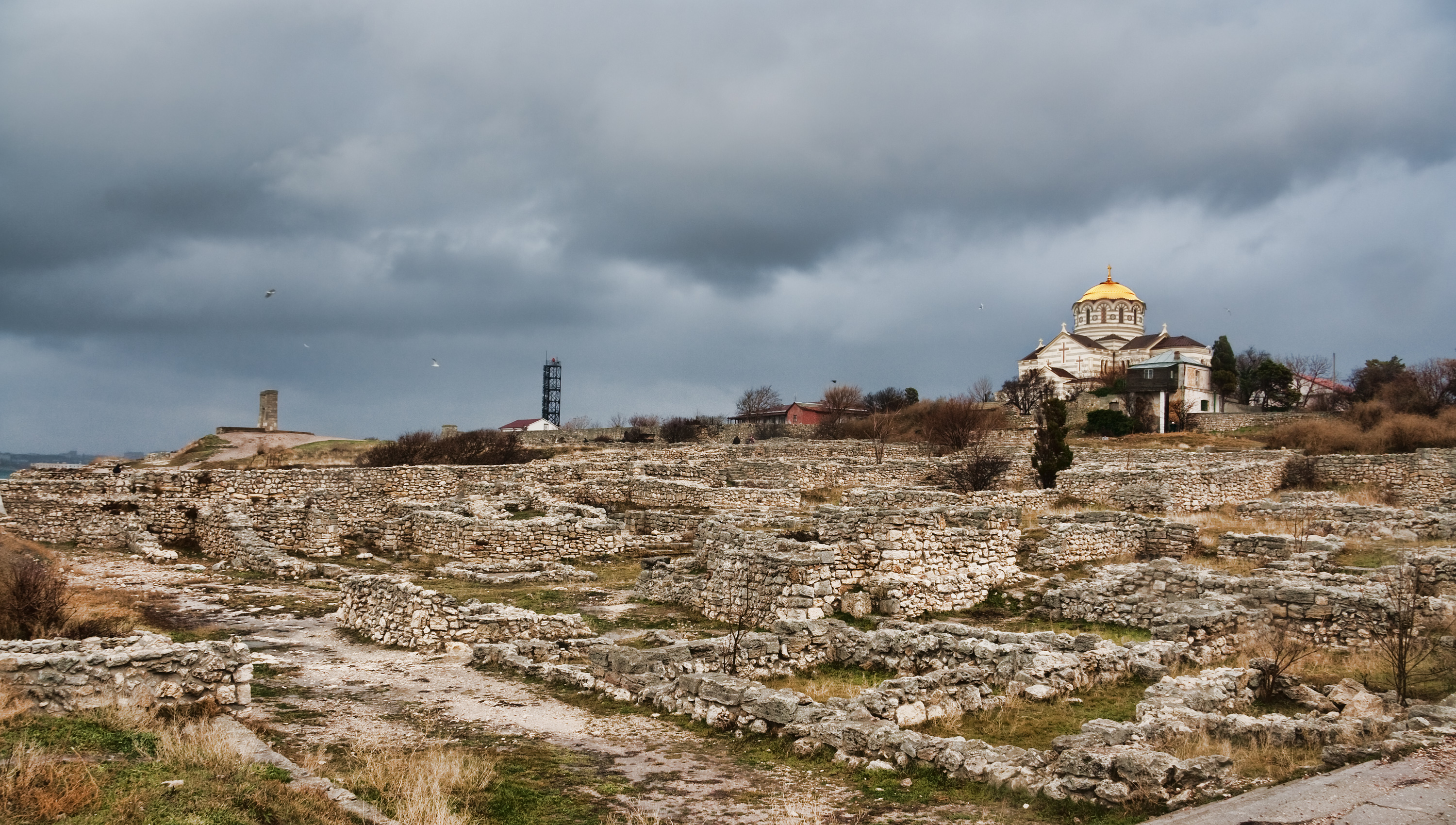 Ruins of Chersonesos. Crimea